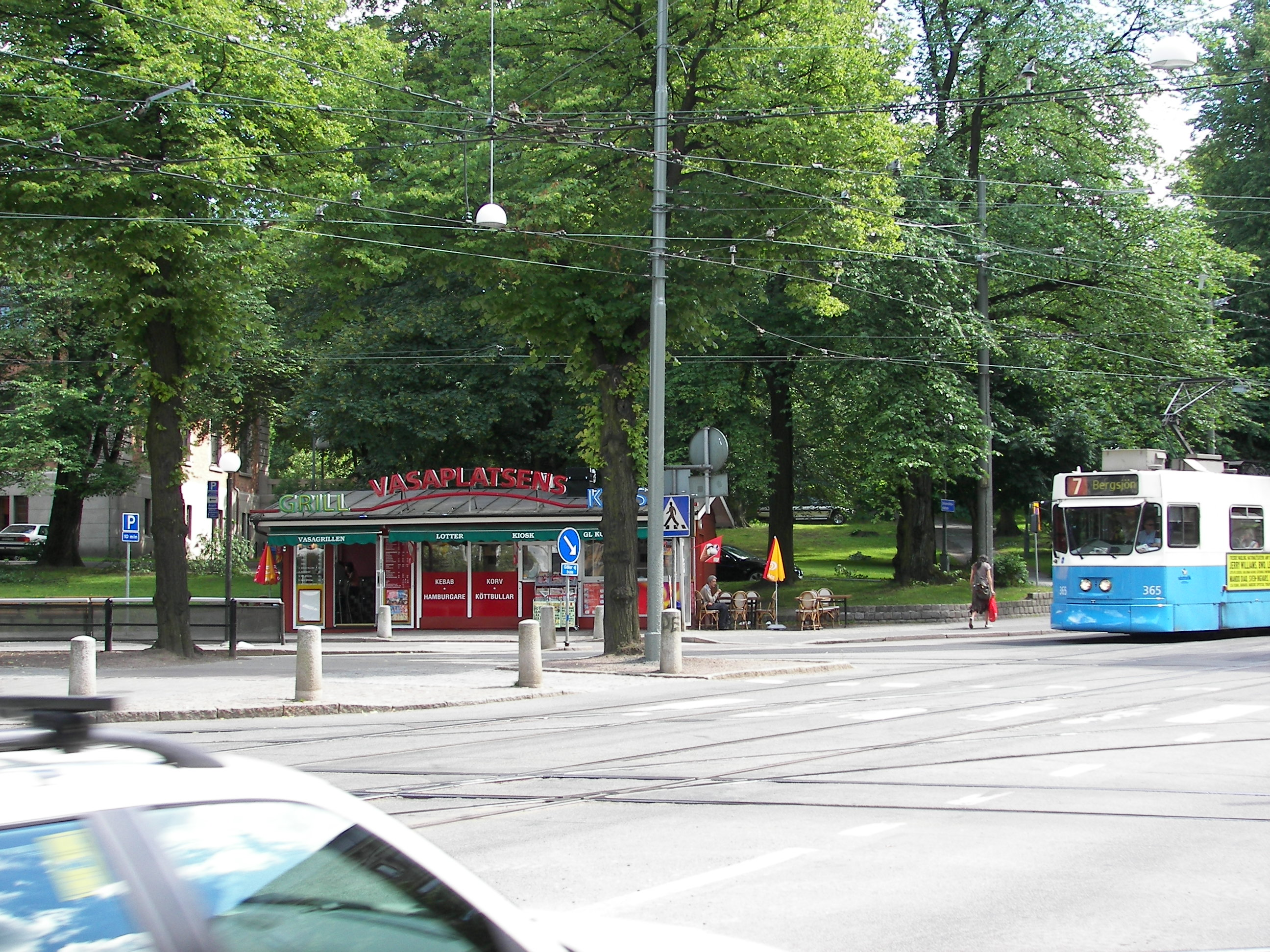 Vasaplatsen in Göteborg, Sweden.